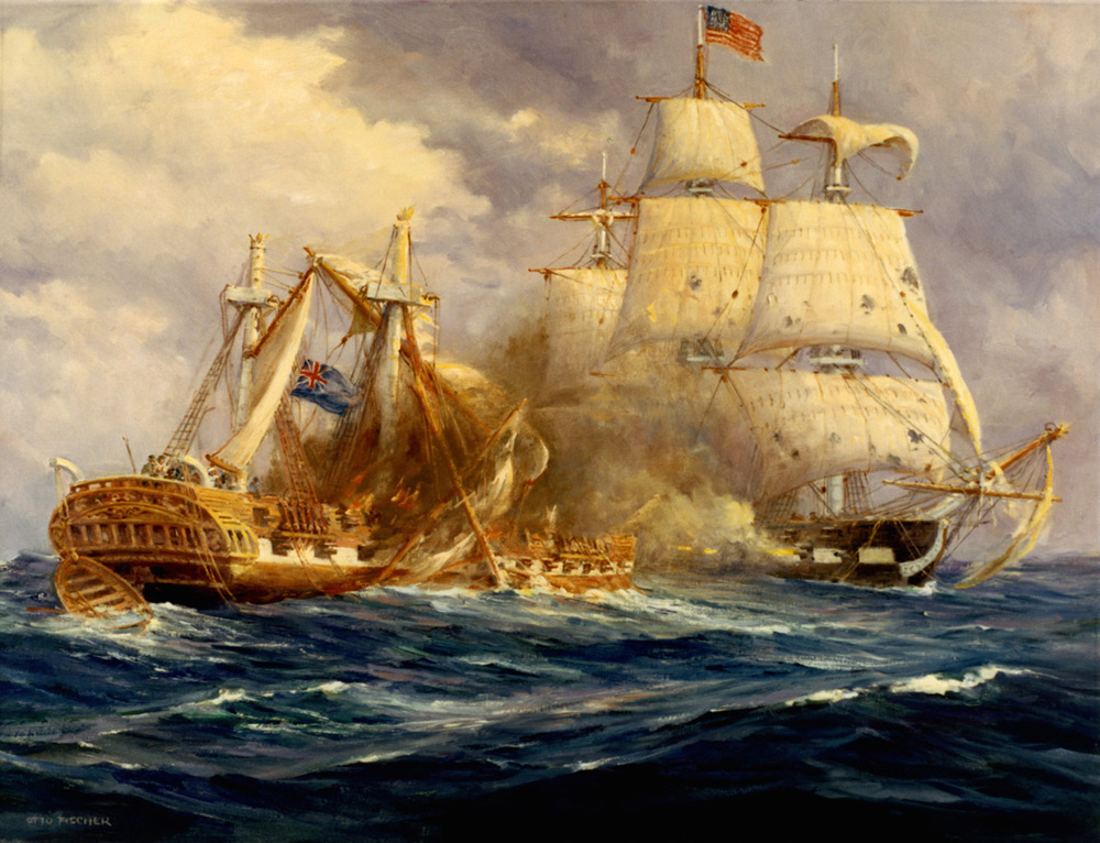 painting by Anton Otto Fischer depicting the first victory at sea by USS Constitution over HMS Guerriere